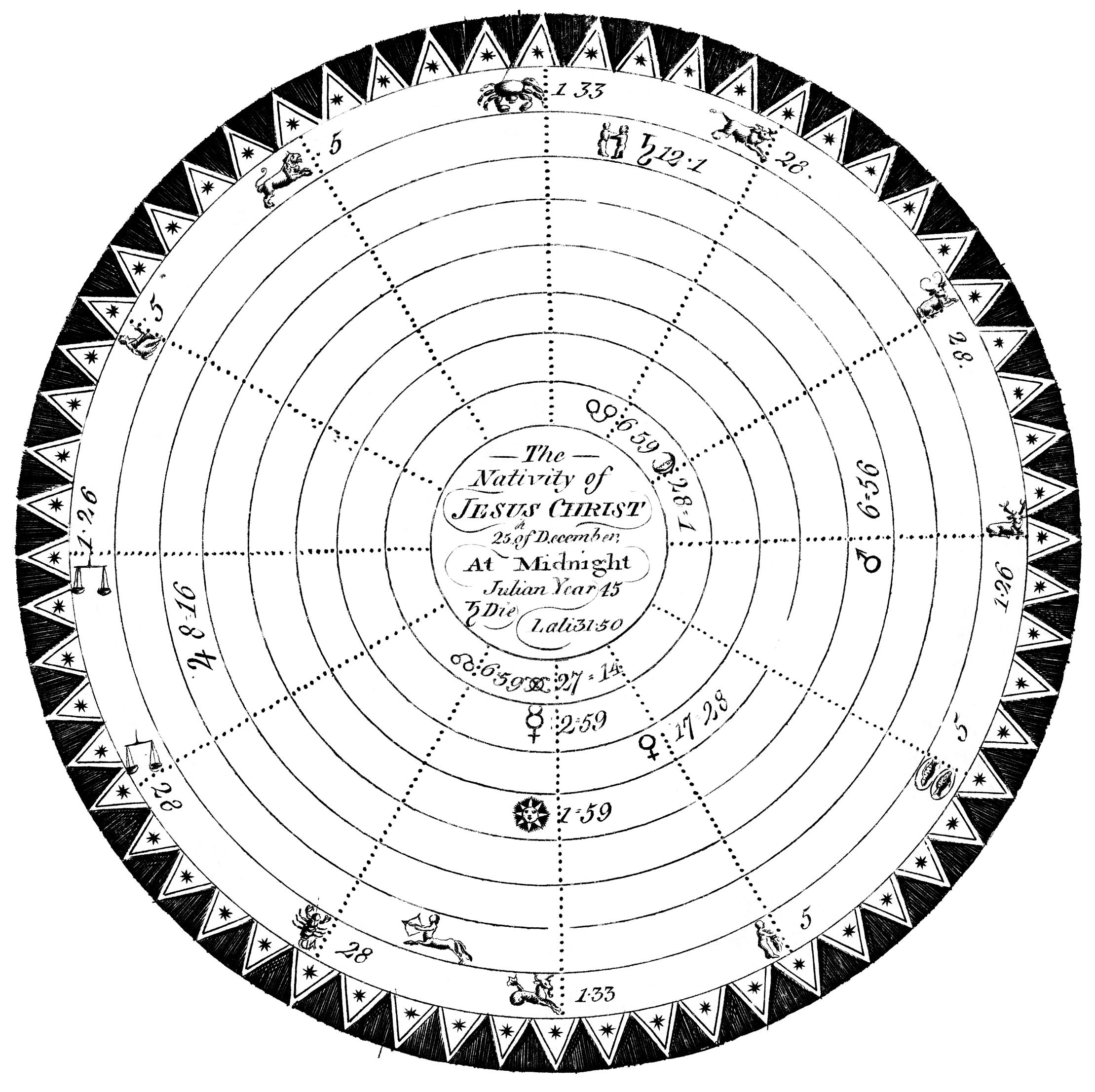 Horoscope appearing in Ebenezer Sibly's book Astrology drawn for the speculated birth time of Jesus Christ, midnight, December 25, in the Julian year 45.